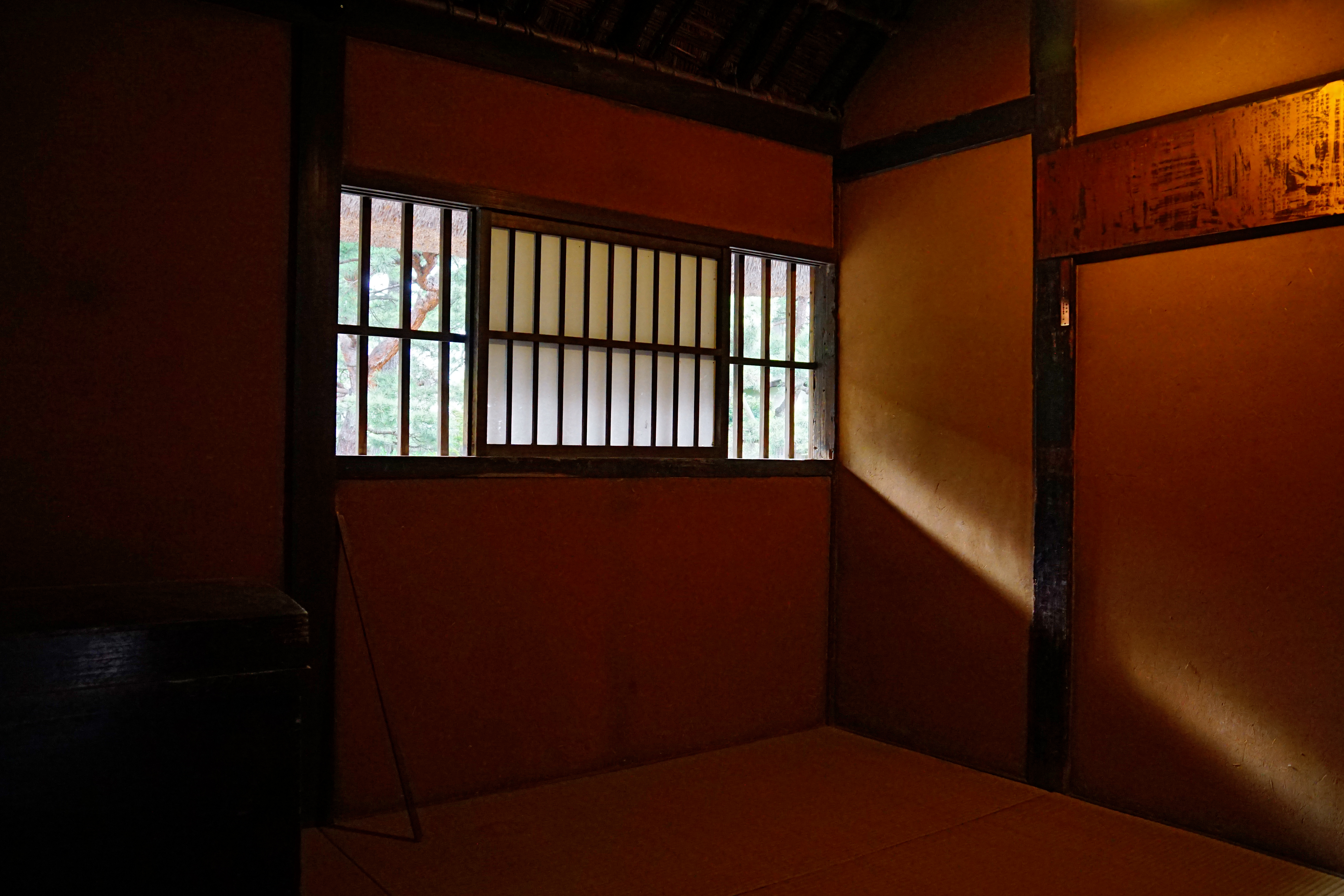 Shimizu-en in Shibata, Niigata prefecture, Japan.